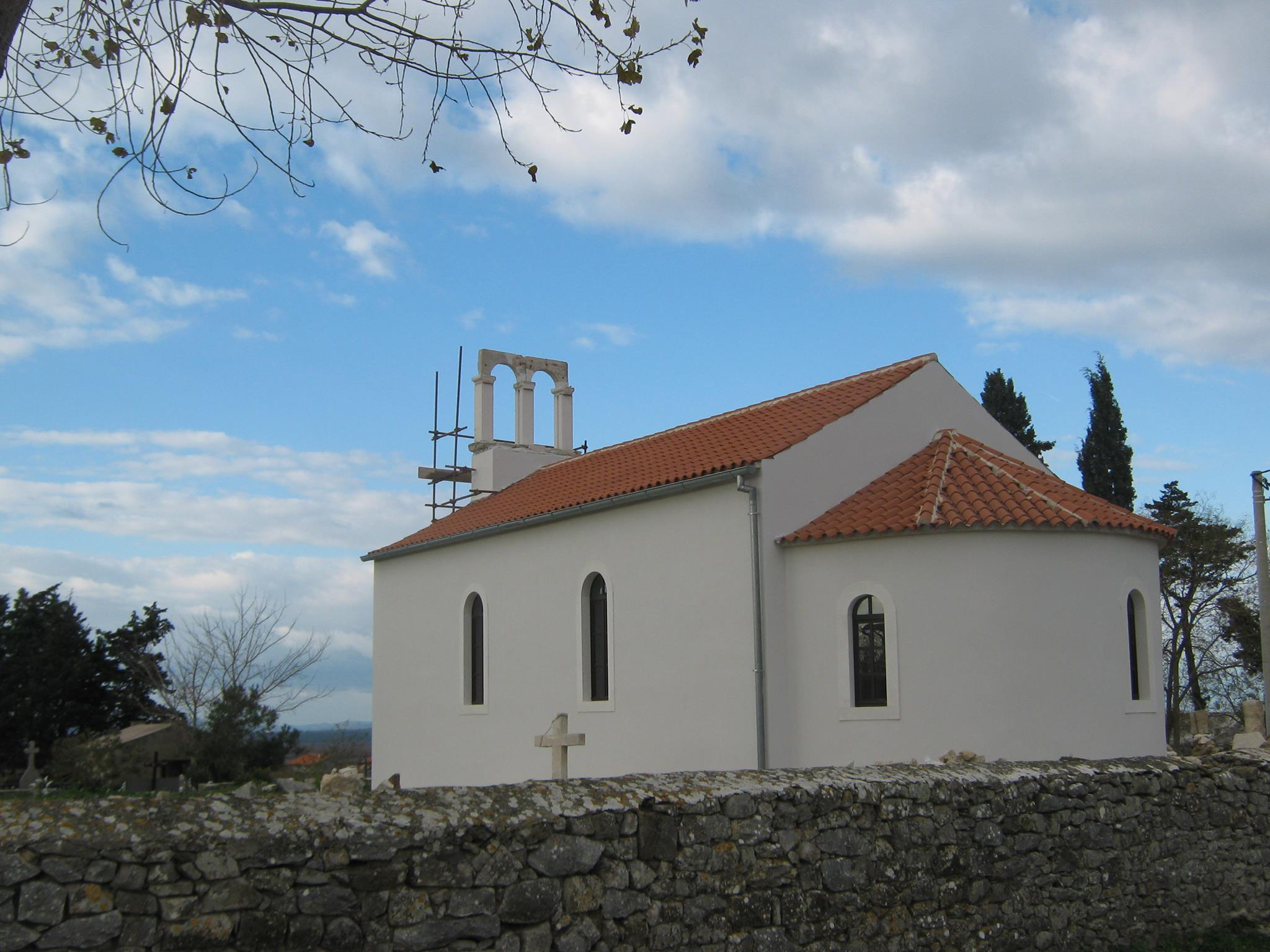 Crkva Sv. Đorđa posle rata